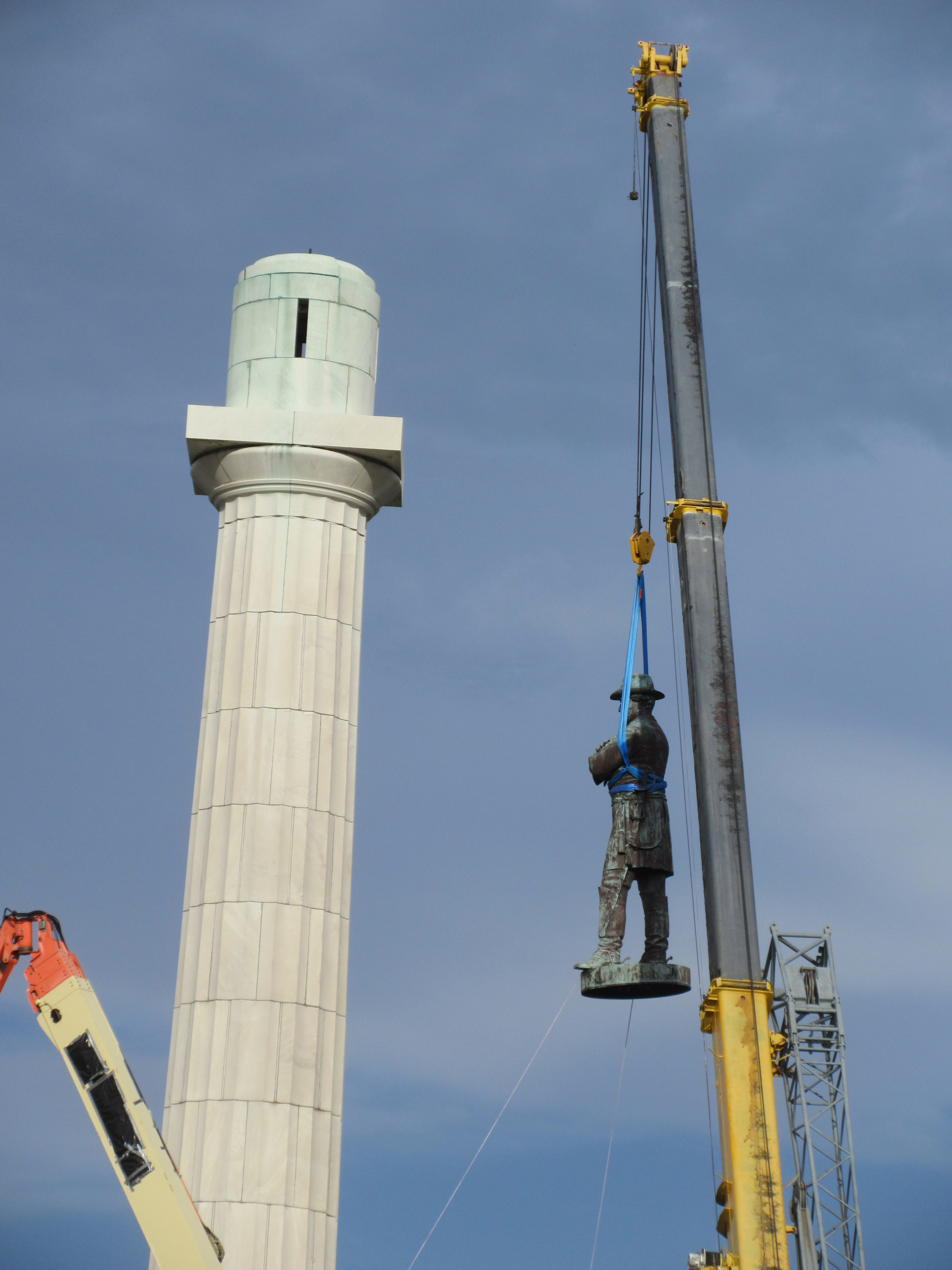 Robert E Lee statue at Lee Circle New Orleans being removed from atop the column. Watched from Howard Avenue side. The crowd watching had a block party festive atmosphere. I was told there was a small group of neo-Confederates on the other side of the circle protesting the removal. Photo by Infrogmation of New Orleans, 19 May 2017. Free reuse with author attribution in accordance with any of the licenses listed by the author/photographer. Reuse without photo attribution is a violation of copyright.